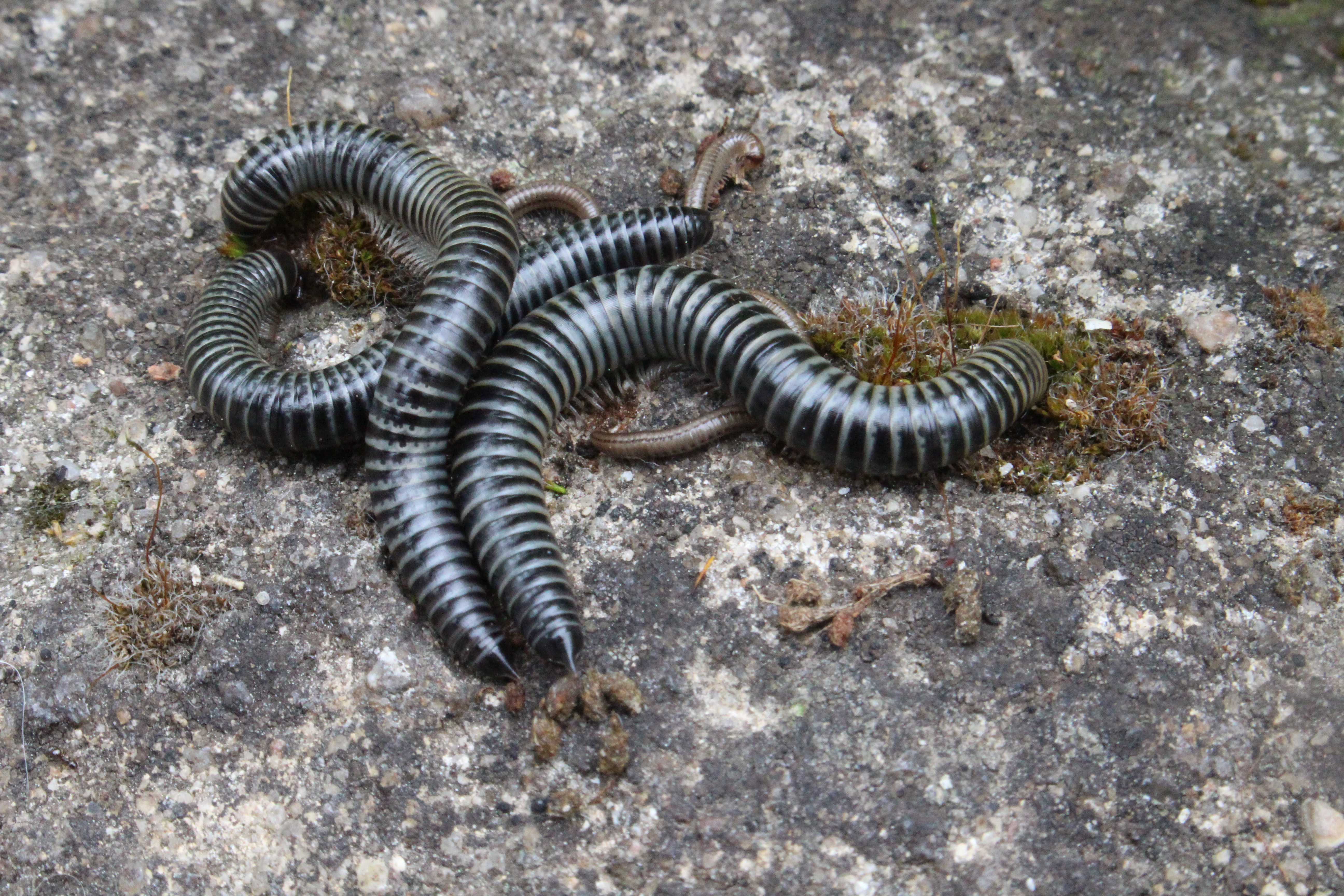 Ommatoiulus sabulosus aimatopodus, gathered after the rain on an old wall in Antibes (France, 06) : adults and subadults showing the typical black and white pattern of the aimatopodus forma, alongside with lighter, longitudinally-stripped brown juvenile, looking like the nominal forma.